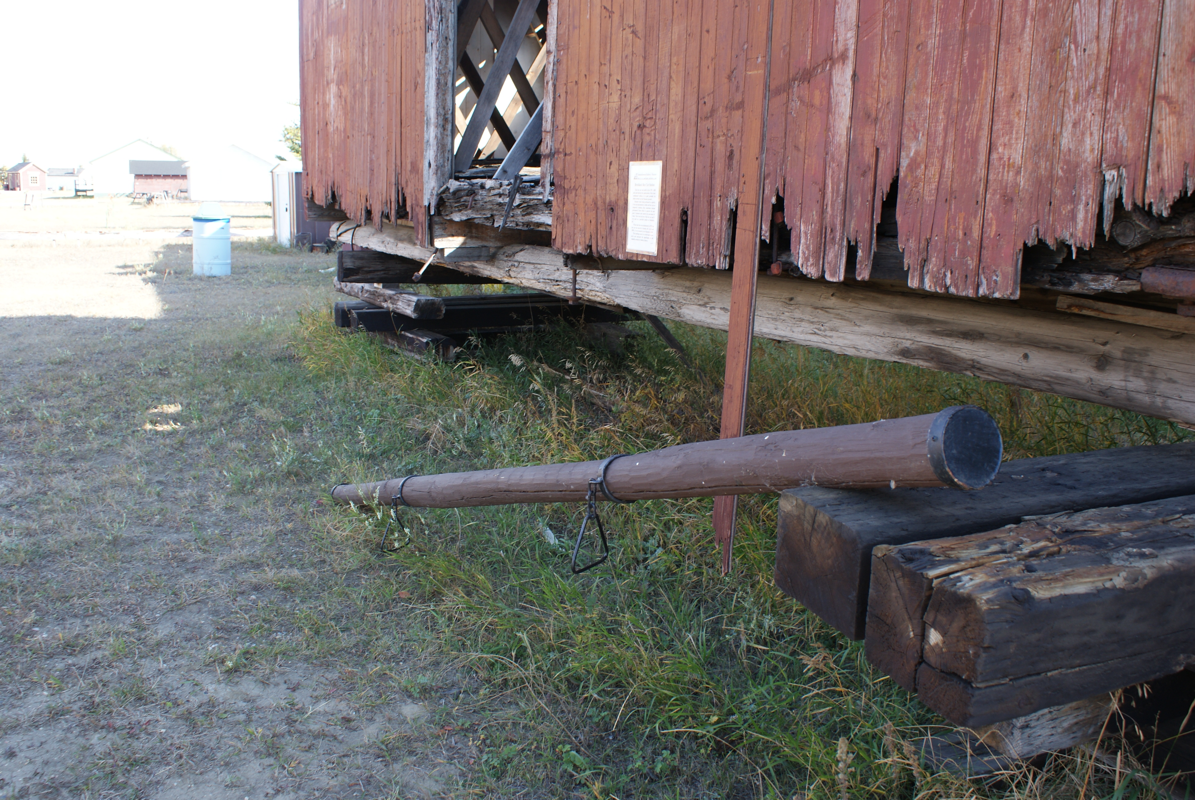 Push pole about 12 feet long and having a diamter of 5 inches. They were placed in receptacles called push pole pockets. The pole was placed between the locomotive and the freight car, and used to push the car on or off a siding or to another track. Used between 1870 and the mid 1960s Saskatchewan Railway Museum They were the cause of several accidents. Saskatchewan Railway Museum 1 KILLED, 20 HURT IN JERSEY WRECK; Freight Car Jumps Rails and Rips Sides of Passenger Cars at Stevens. FIRE FOLLOWS COLLISION Edward Lawrence of Bordentown, Brakeman, Crushed Between Freight Car and Coach. special to The New York Times. June 26, 1920, Saturday Page 4, 306 words The push pole is in front of an 1880s box car station with a wooden base, as compared to modern steel base frames